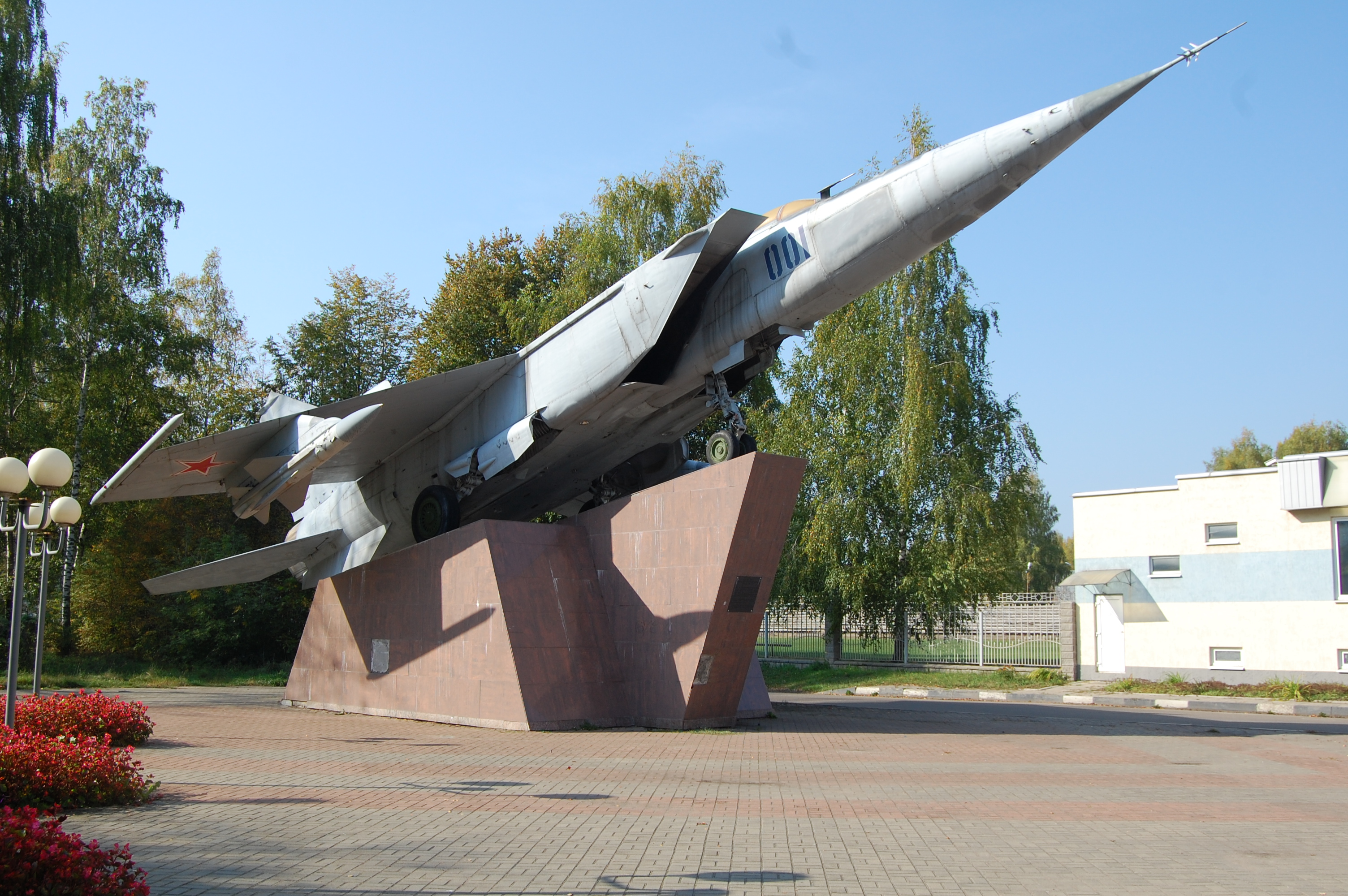 Monument to the Mikoyan-Gurevich MiG-25 in Dubna, Moscow oblast